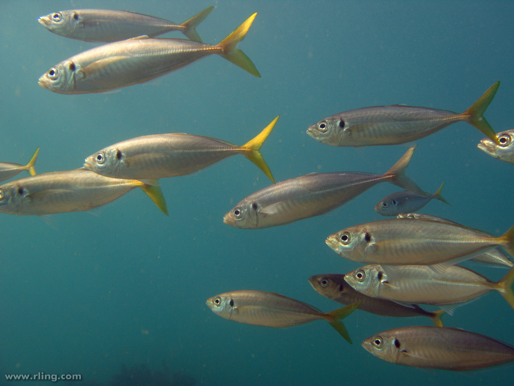 A school of Yellowtail Scad (Trachurus novaezelandiae). Fairy Bower, Manly, NSW